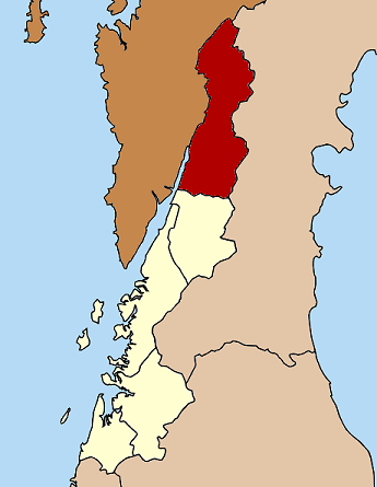 Map of Ranong province, Thailand, with the district Kra Buri (อำเภอกระบุรี) highlighted.